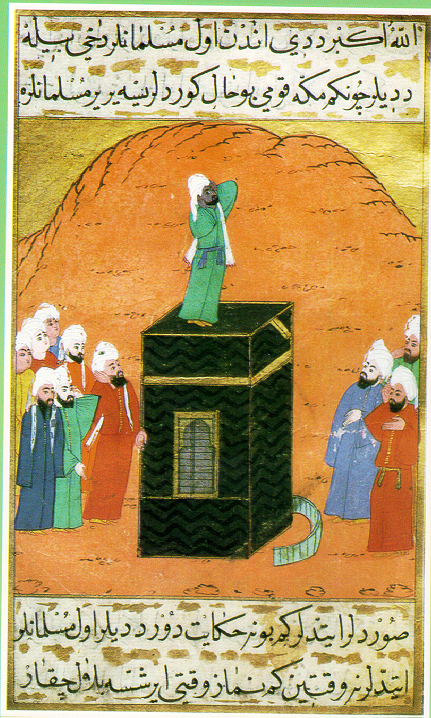 Turkish image of Bilal, Islams first Muezzin, surrounded by Sahaba, but Muhammad is not present.